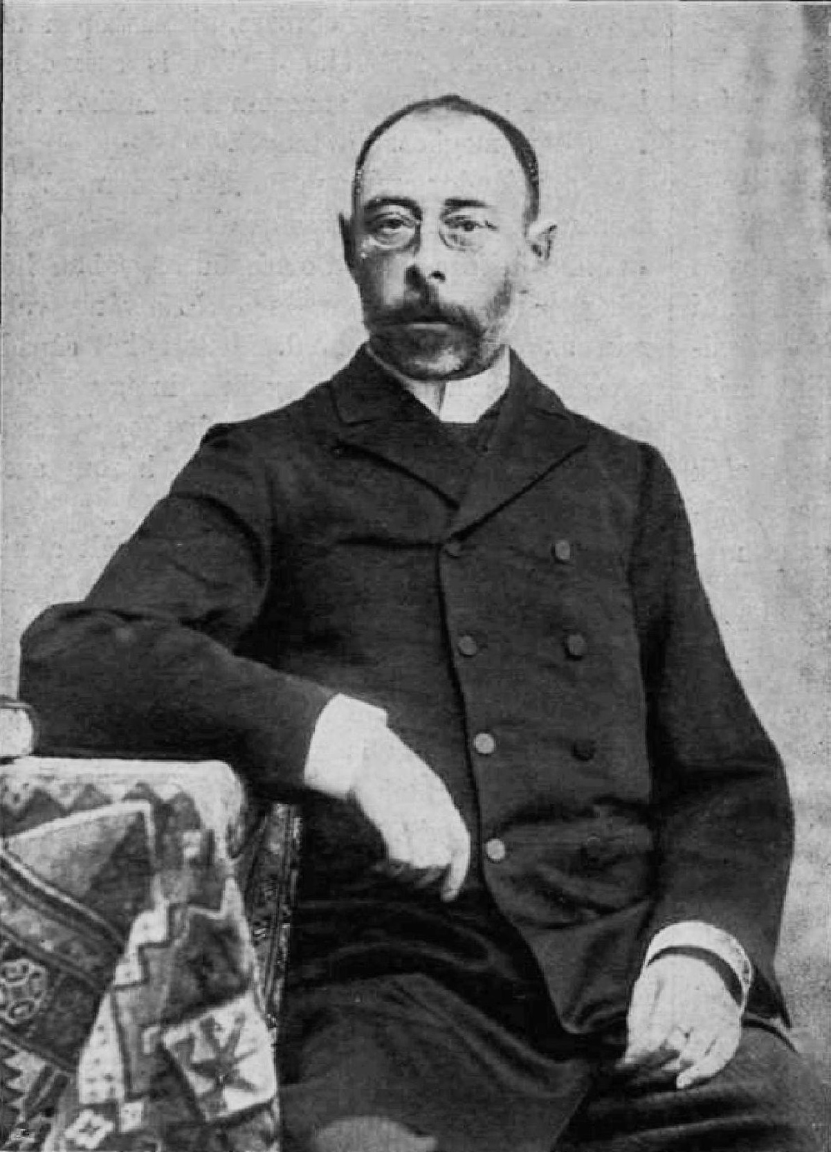 The politician László Lukács